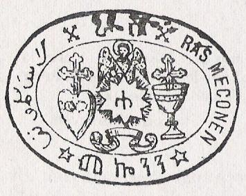 Ras Mekonnen's first seal (1890-1897)